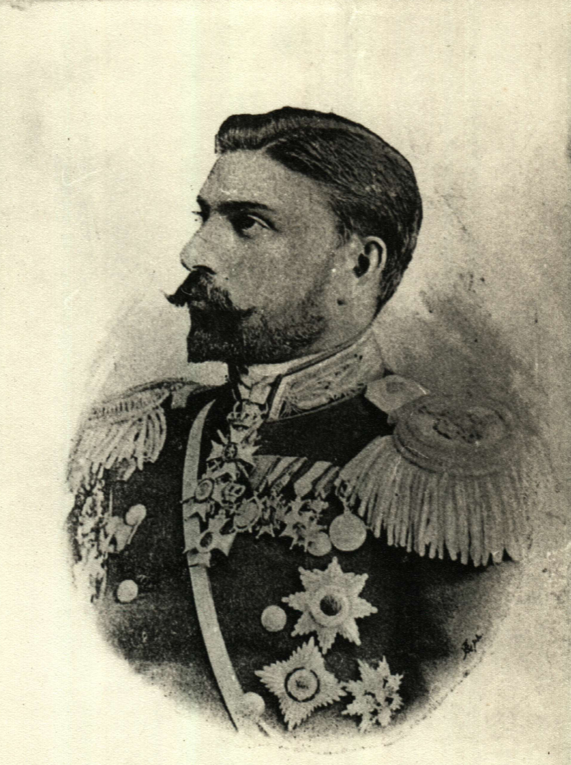 Bulgarian general and politician Racho Petrov (1861-1942).